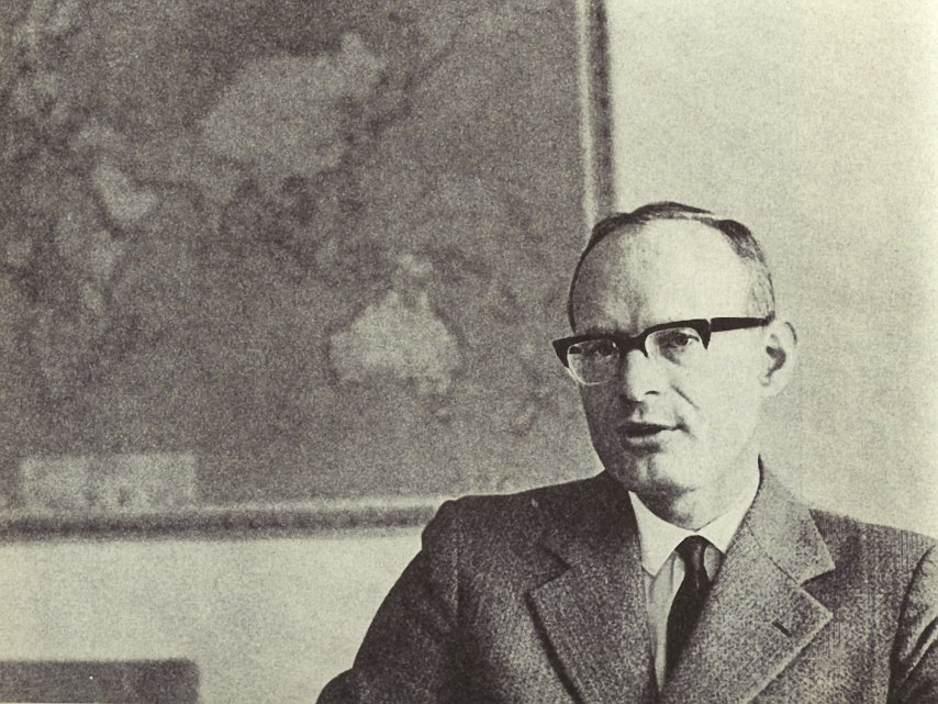 A portrait of author Sven Fagerberg.